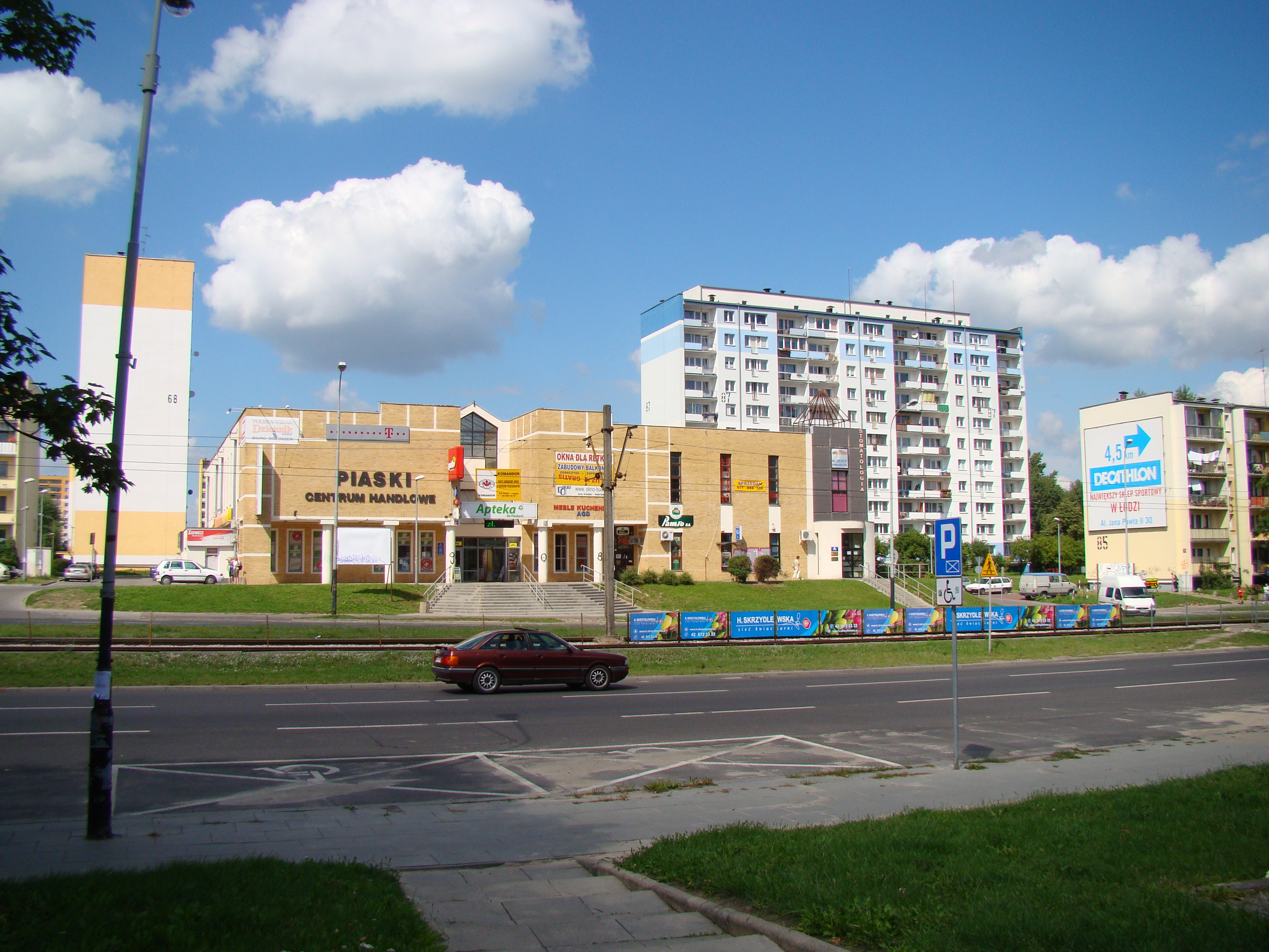 View Retkinia